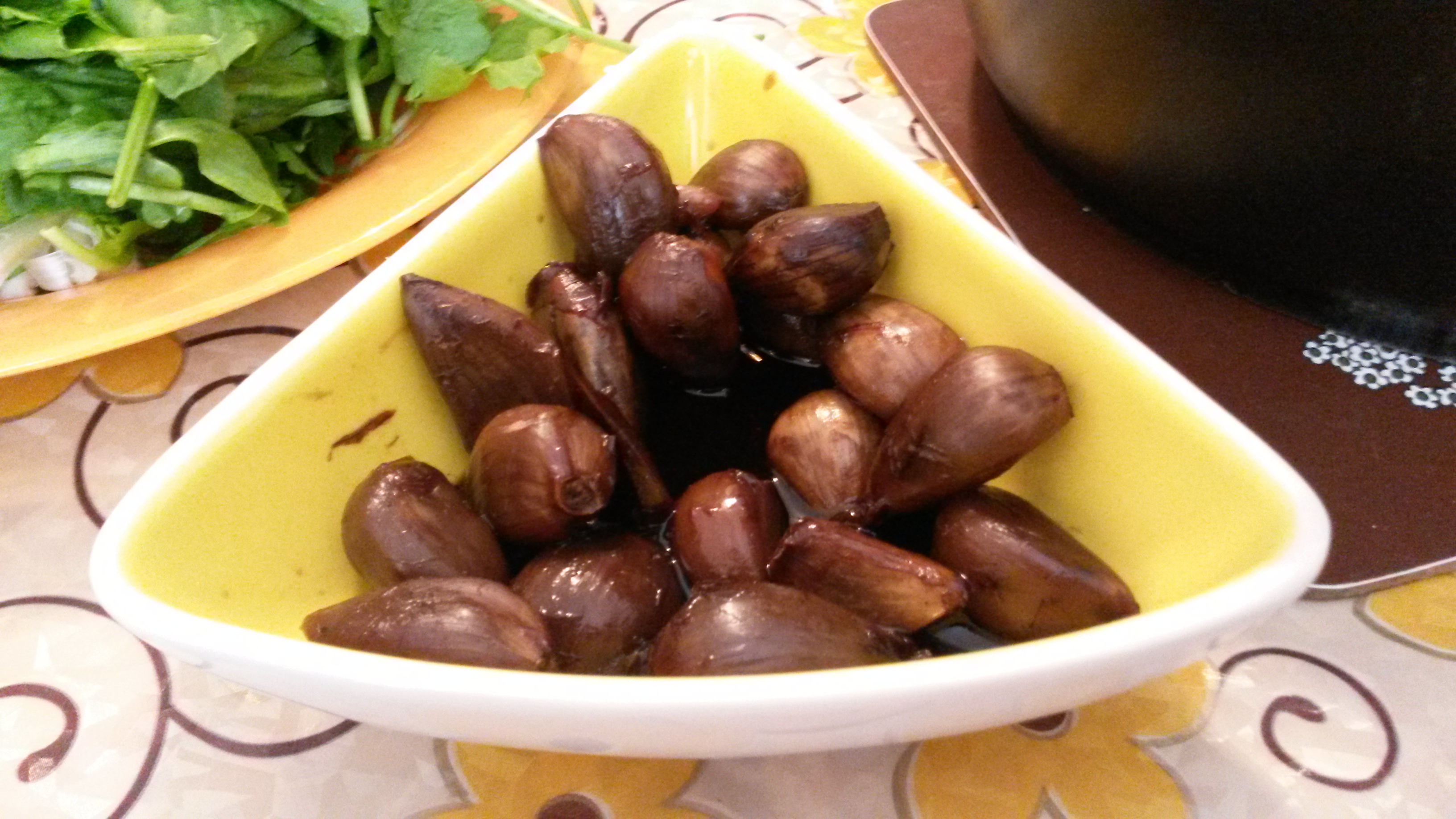 Սխտորի թթու -- հնացրած ու կարամելիզացրած سیر ترشی pickled garlic -- aged and caramelized